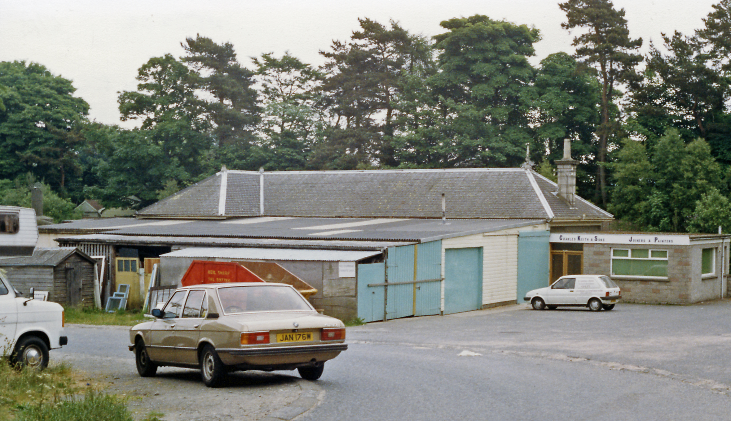 Former Cults station, 1988. View southward in a builder's yard, the station building being ahead: ex-GNSR Aberdeen - Ballater (Royal Deeside) line. The station and line were closed to passengers from 28/2/66, but freight continued a further few months - to Cults until 2/1/67.